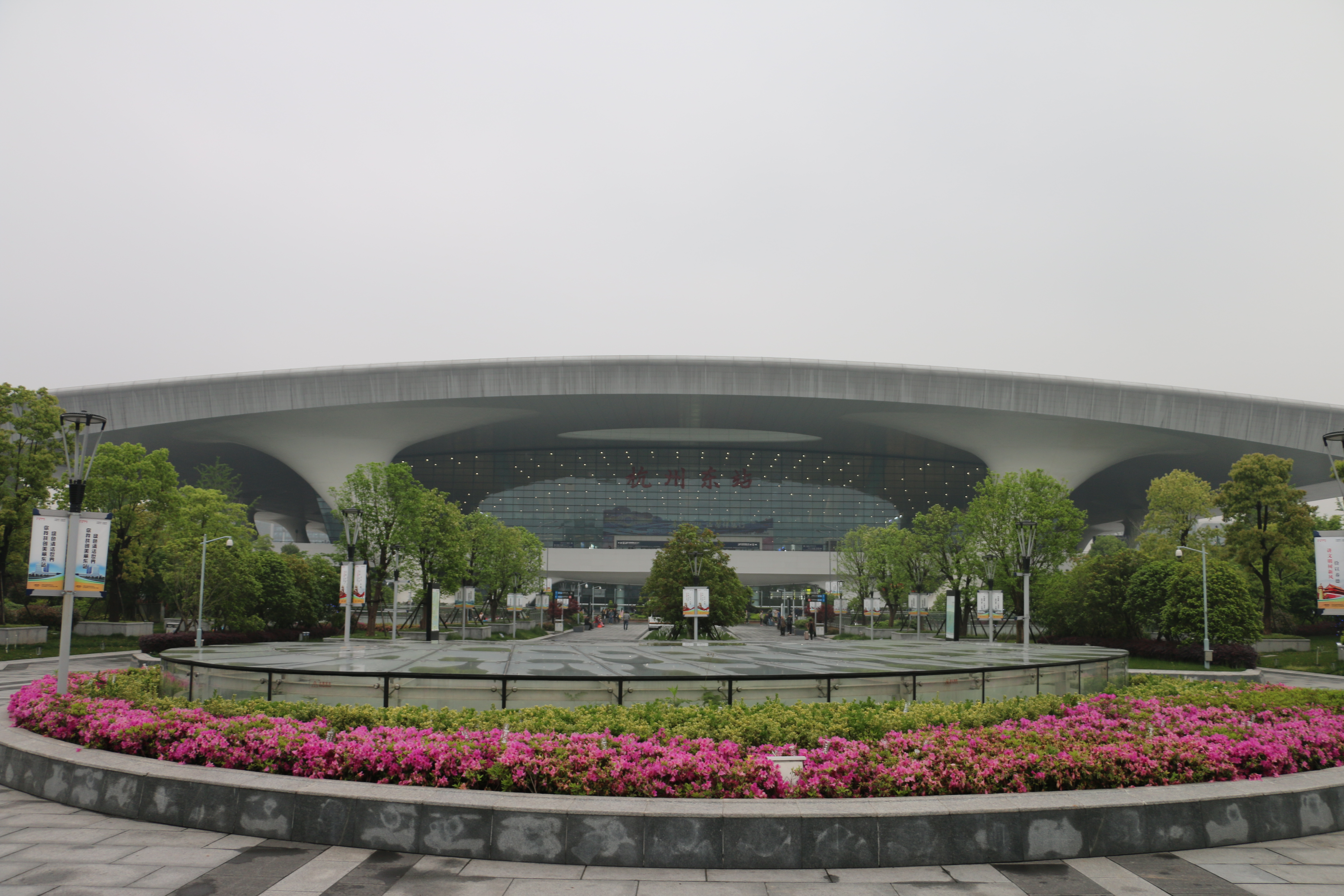 201604 Facade of Hangzhoudong Station